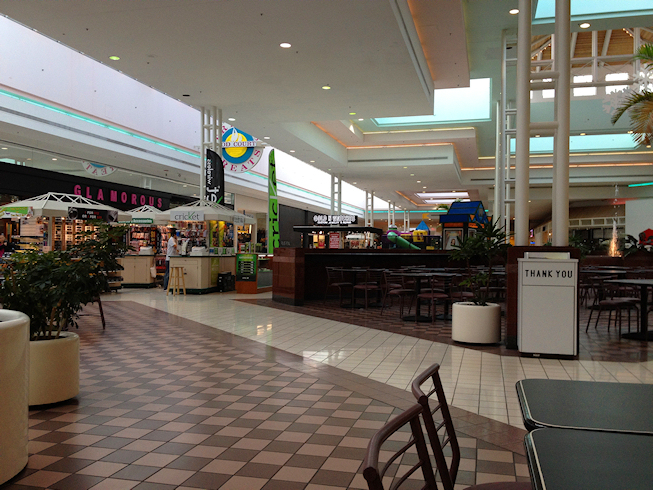 Food court inside the Mall of the Mainland in Texas City, Texas